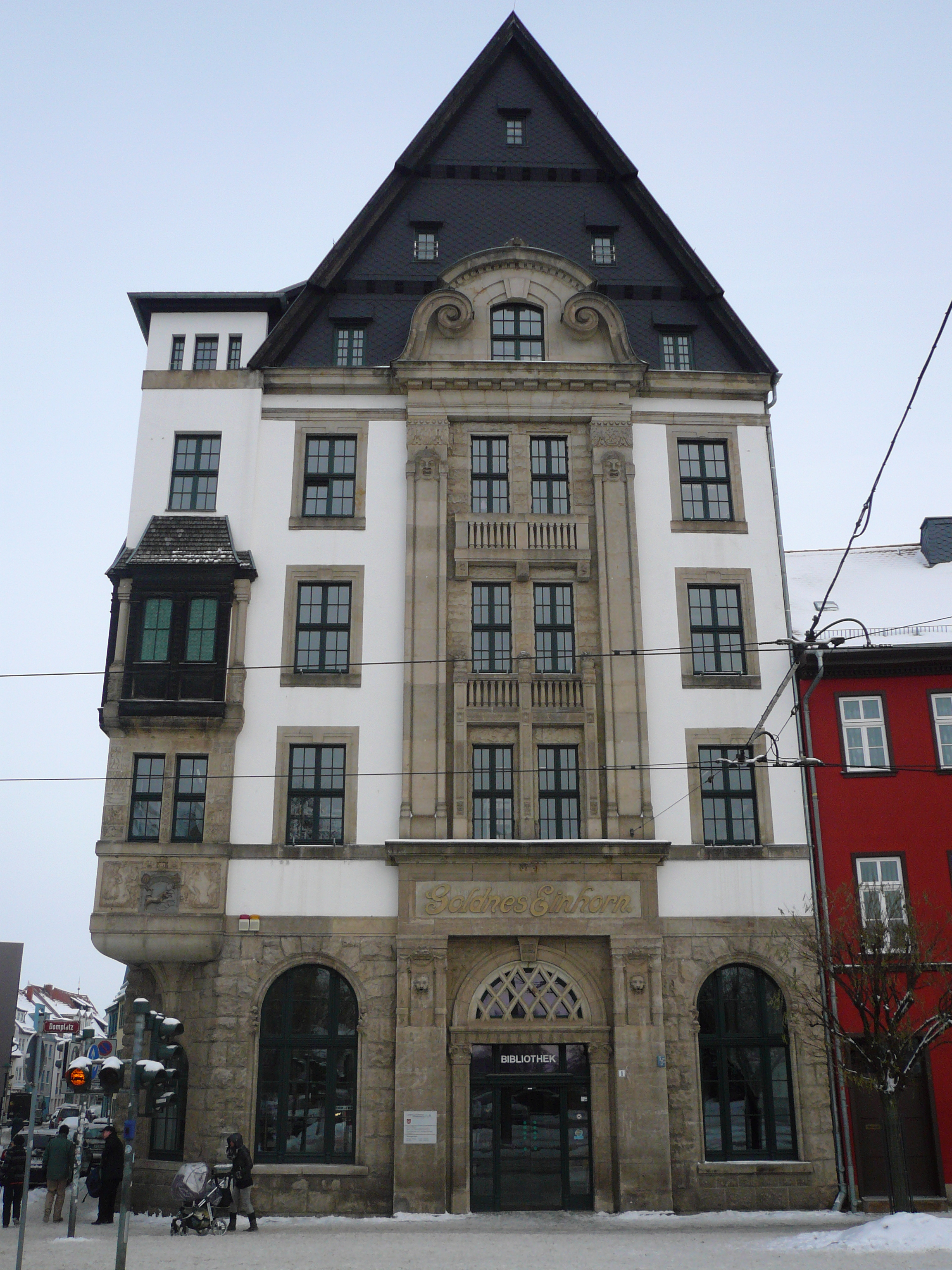 The house Golden Unicorn, that hosts the city and local library Erfurt, Germany